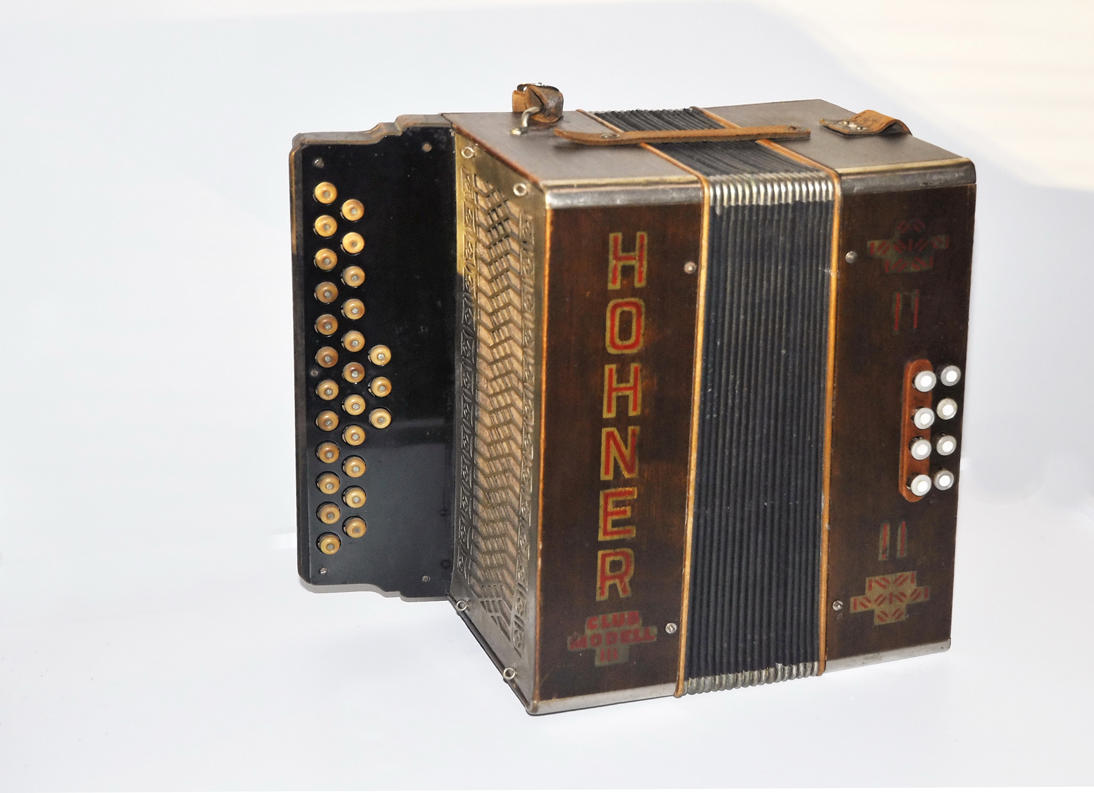 Hohner accordion from Museum of Science and Technology Belgrade.